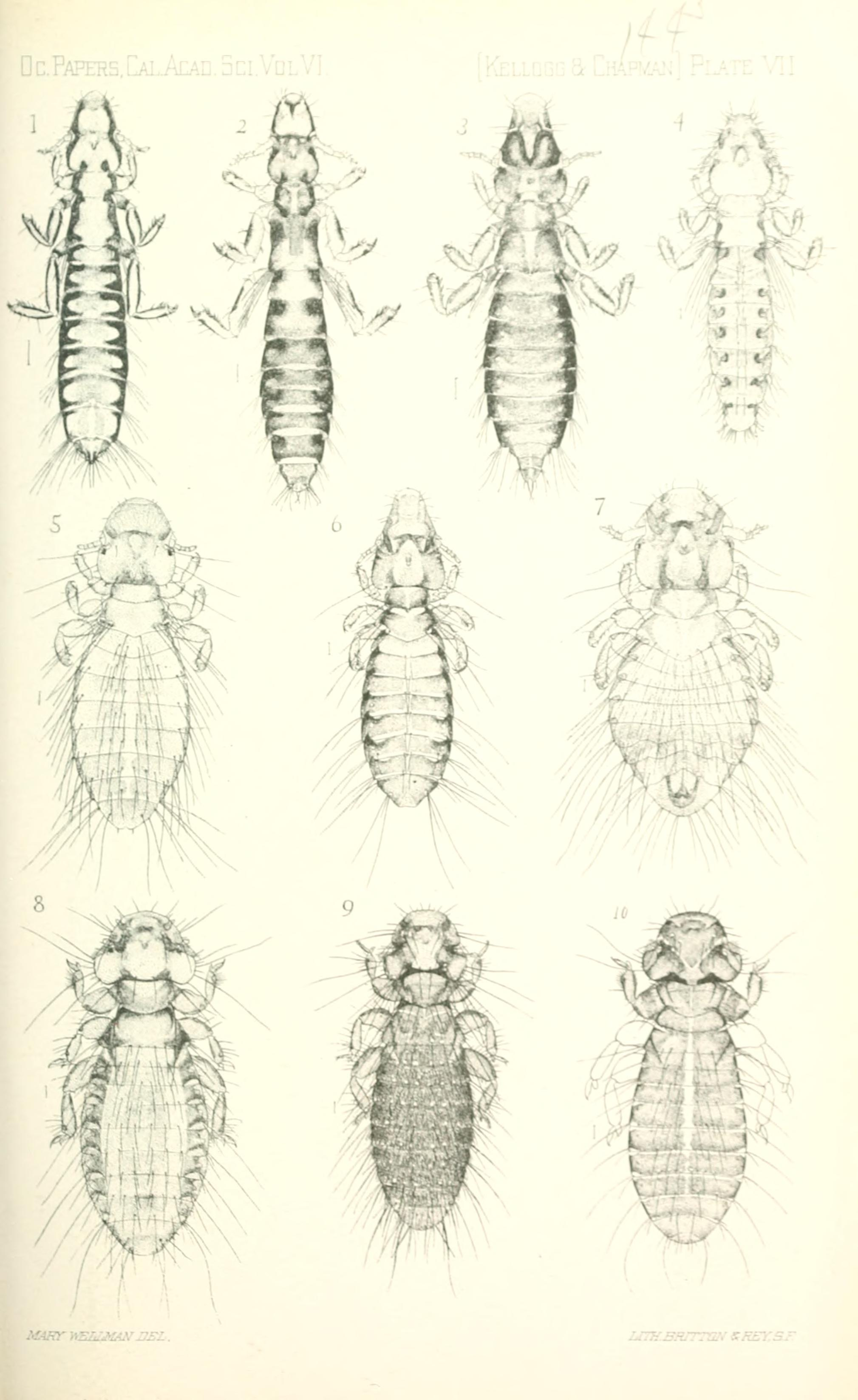 Title: New Mallophaga, 3. Comprising: Mallophaga from birds of Panama, Baja California and Alaska Year: 1899 (1890s) Authors: Kellogg, Vernon L. (Vernon Lyman), 1867-1937 Cady, Berthe Louise (Chapman) Snodgrass, R. E. (Robert E.), 1875-1962 Subjects: Mallophaga Publisher: San Francisco California Academy of Sciences Text Appearing Before Image: \ .AHT ■jfnr-^jA.v ::s. .rm^Rr .313 riCiiip/A:;^ Plate.II 4 if^^ Text Appearing After Image: Ln7(.BHrrTs.u smn.sF uuHS,LALi\C/. ../I. (Kellogg a Litu-;.;.^.,Pi^TE^/lII- ,\\\